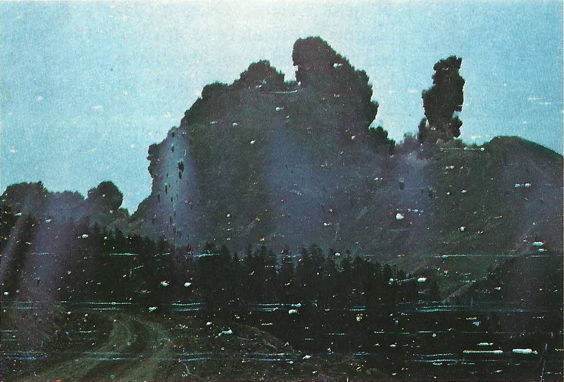 I could not upload this file within Wikipedia's existing structure unless I attributed it to myself. I claim zero responsibility to these photos but instead to Robert Landsburg who died protecting the attached photos. Should Wikipedia choose to remove these under my submission, I request they themselves upload them in his memory.